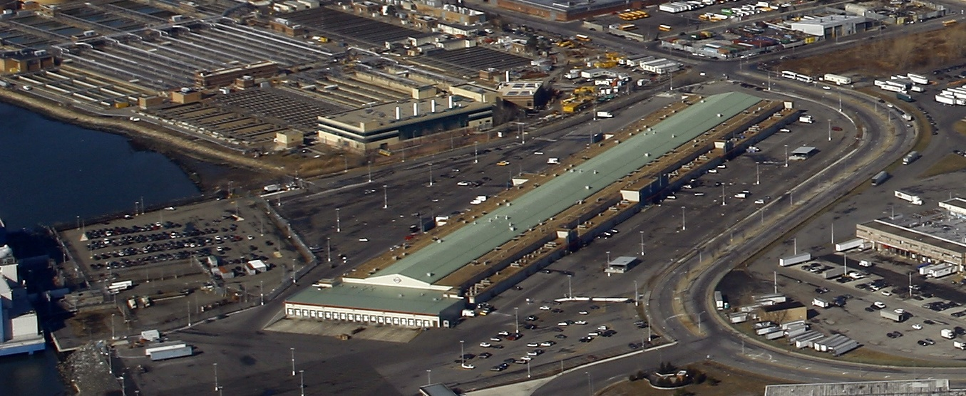 Fulton Fish Market in The Bronx, NY in February 2008